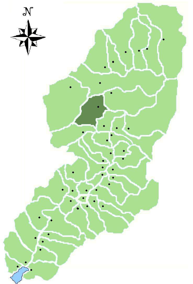 Map of the Comune di Malonno, Valle Camonica